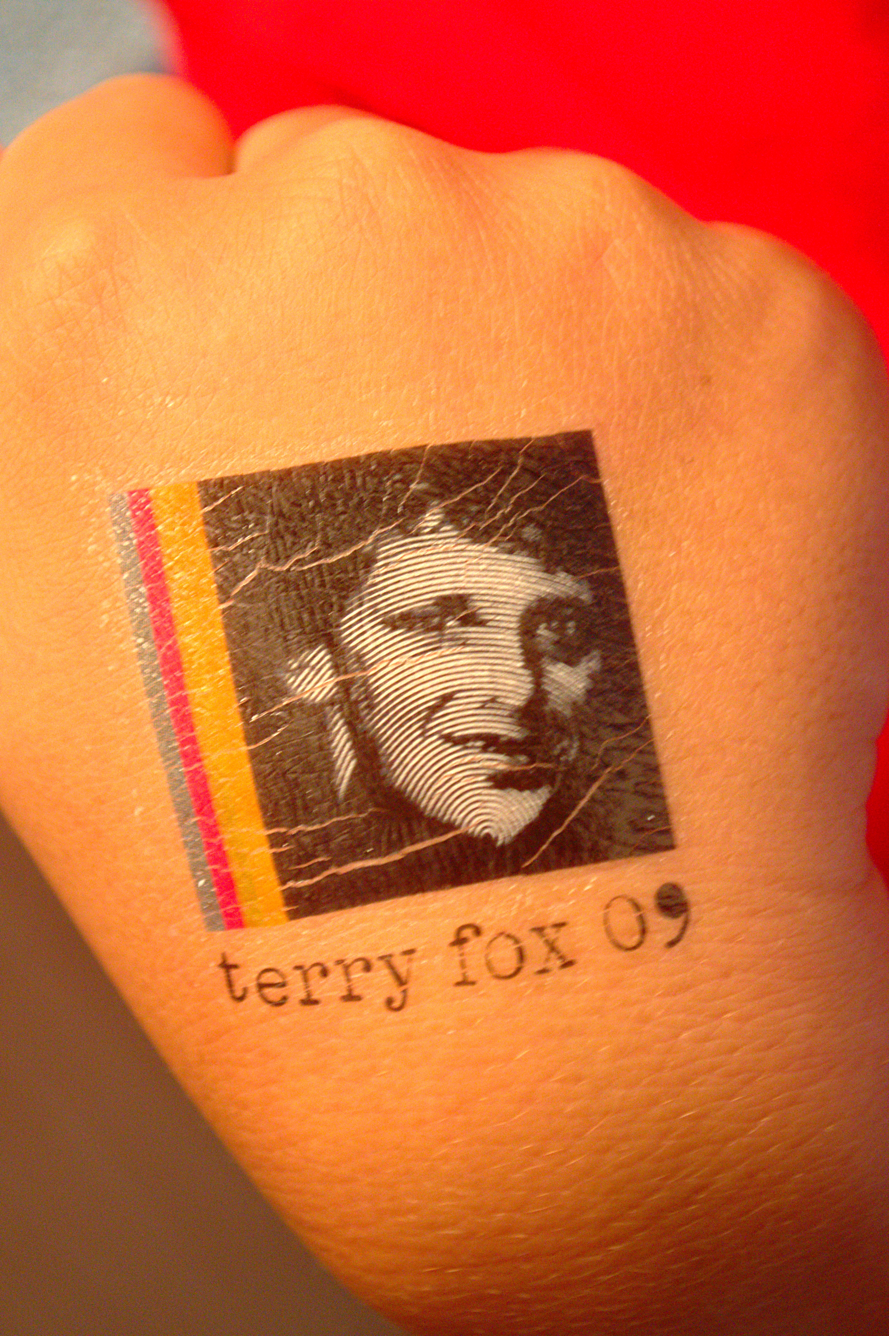 Tattoo for the Terry Fox National School Run Day today.